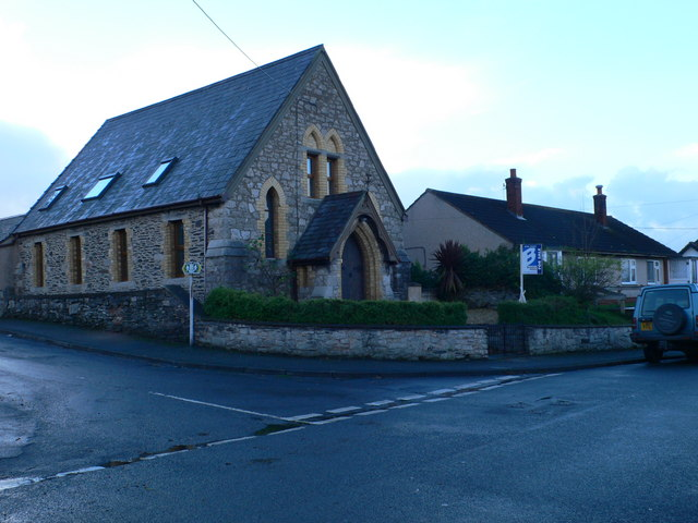 Former chapel in Llandyrnog, Denbighshire. It was either Baptist or Wesleyan. It is now a private house.